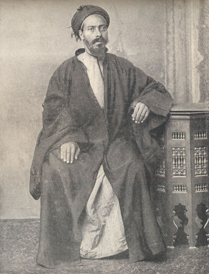 A man seated in black robe and turban. Black- and- white photograph.